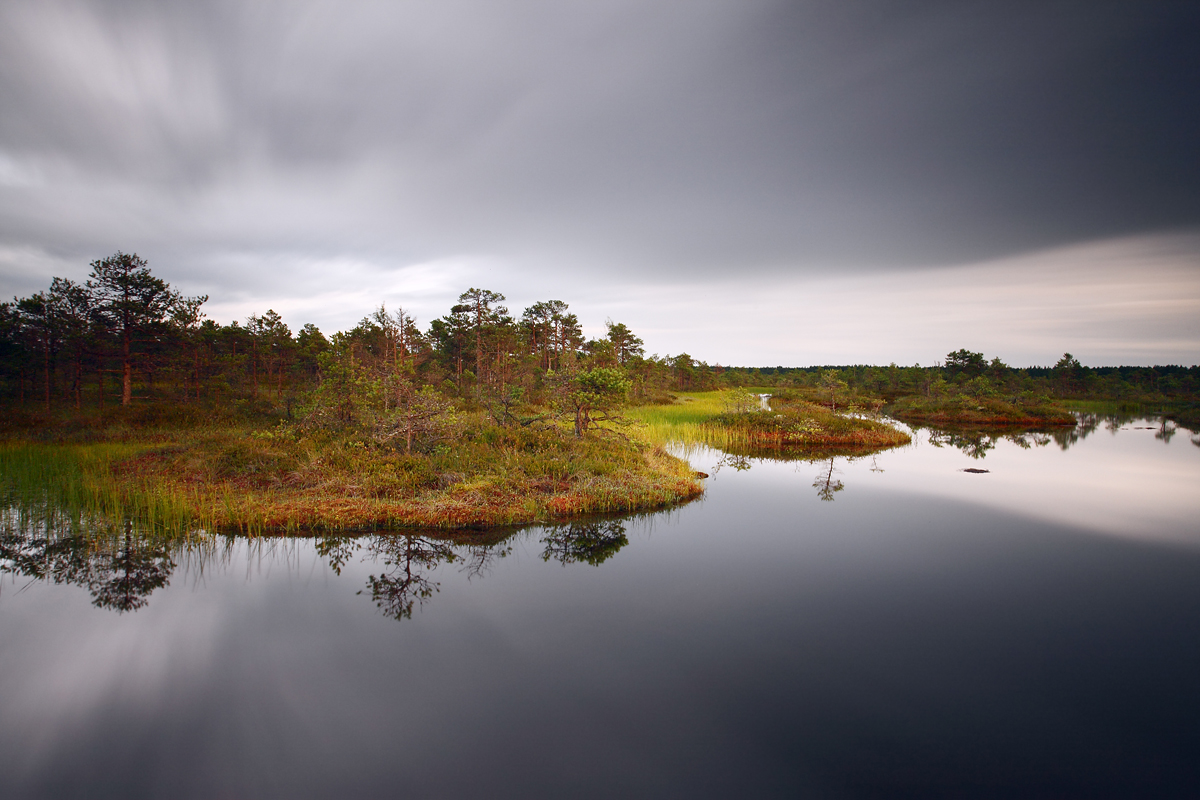 Bog Männikjärve in Estonia